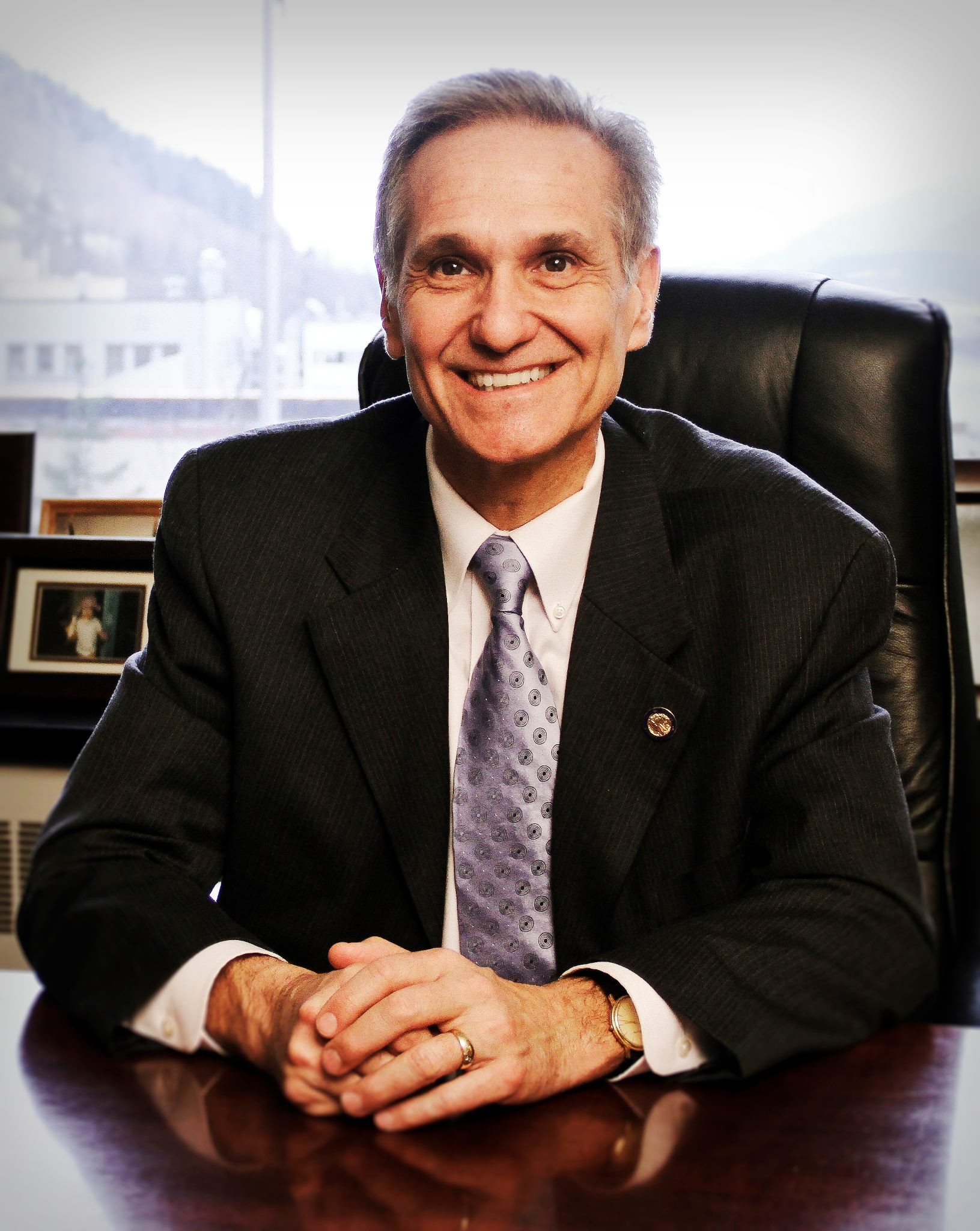 This is a photo taken of Senator Kevin Meyer.